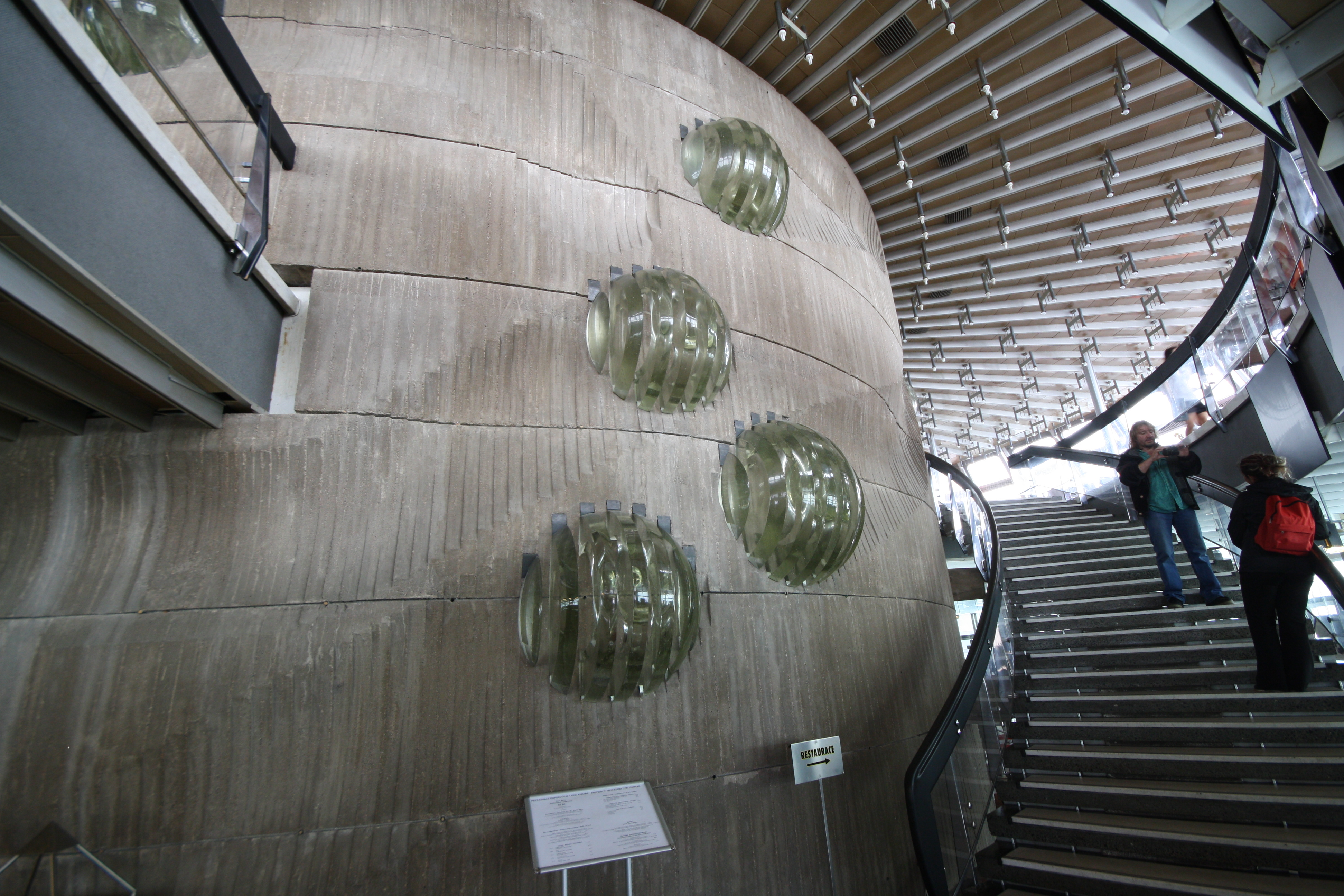 Steps in Ještěd restaurant in Liberec.